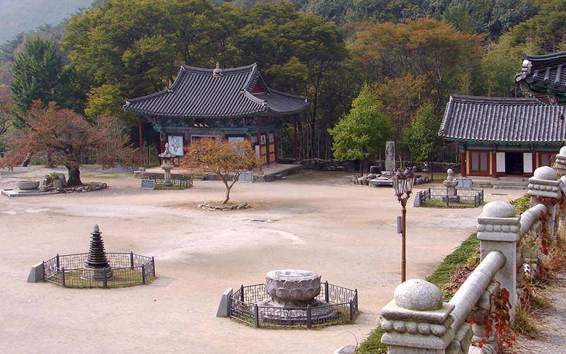 Geumsansa (literally "Golden Mountain Temple") is a head temple of the Jogye Order of Korean Buddhism. It stands on the slopes of Moaksan in Gimje City, Jeollabuk-do, South Korea.